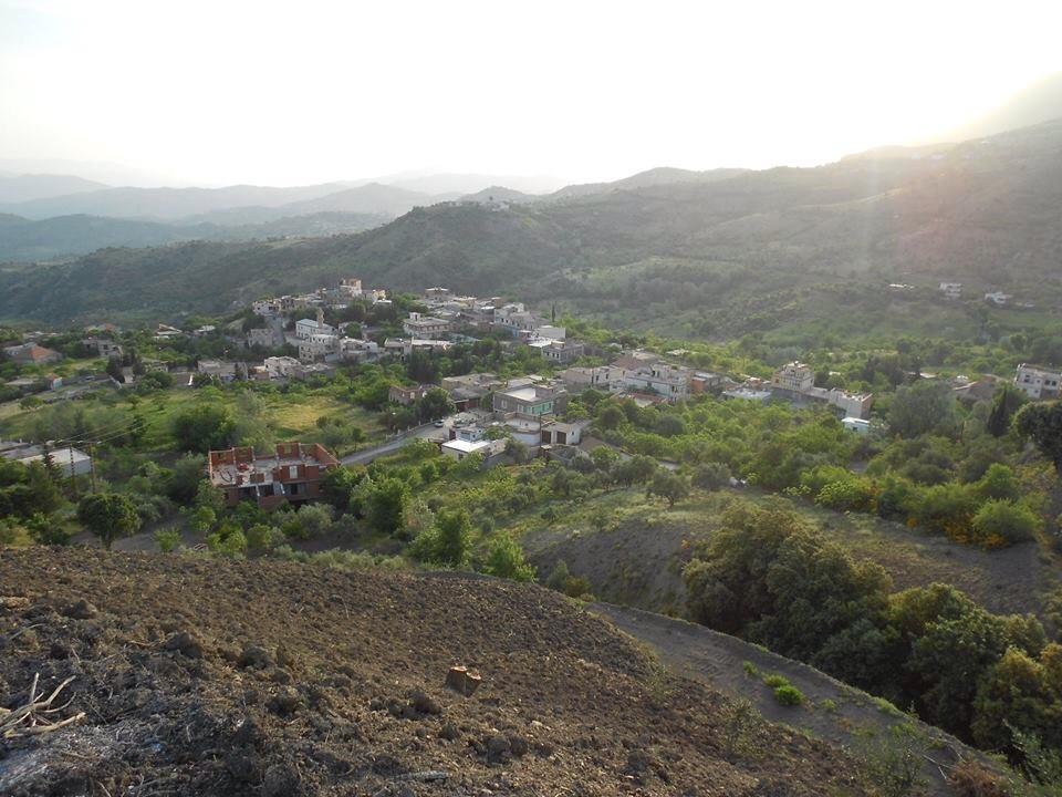 this is the most beautiful town of Algeria and cleaner.